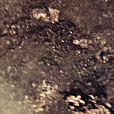 Lipscombite: Mineral. Small black crystals on dark background. Smithsonian National Museum of Natural History, Washington DC, mineral collection. Sample was in the large mineral storage room, not on public display. Named after the chemist William Lipscomb. This is a poor-quality picture, which should be replaced by another picture of black lipscombite. Photograph taken through the eyepiece of a low-power microscope.